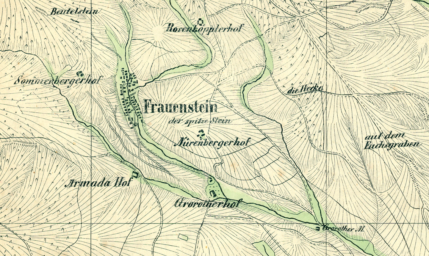 map of Duchy of Nassau, here: Frauenstein